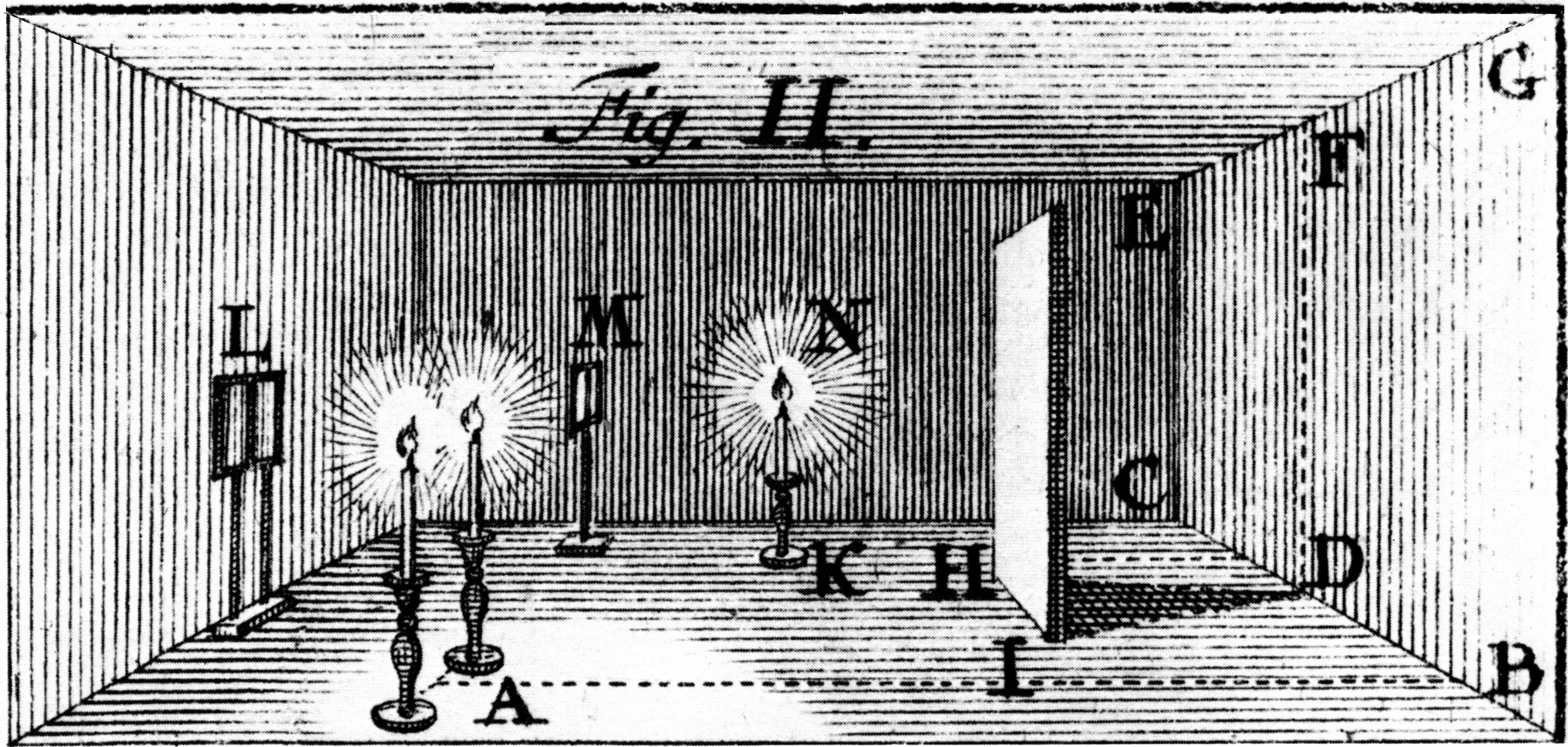 This is a careful scan and touch-up from my copy of Photometria.